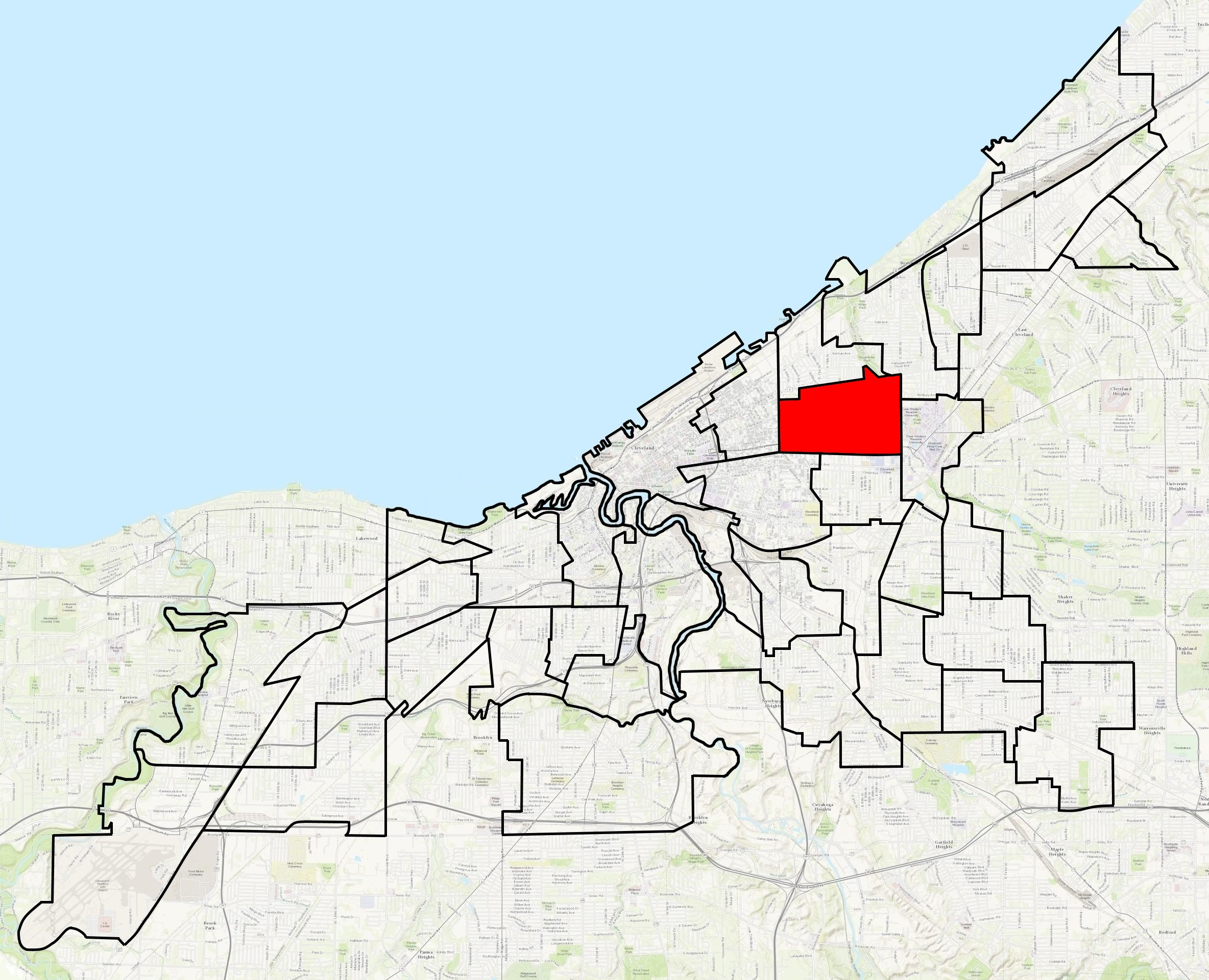 Map of the approximate boundary of the Hough neighborhood of Cleveland, Ohio, in the United States, with the neighborhood colored in red and boundaries of other neighborhoods shown.